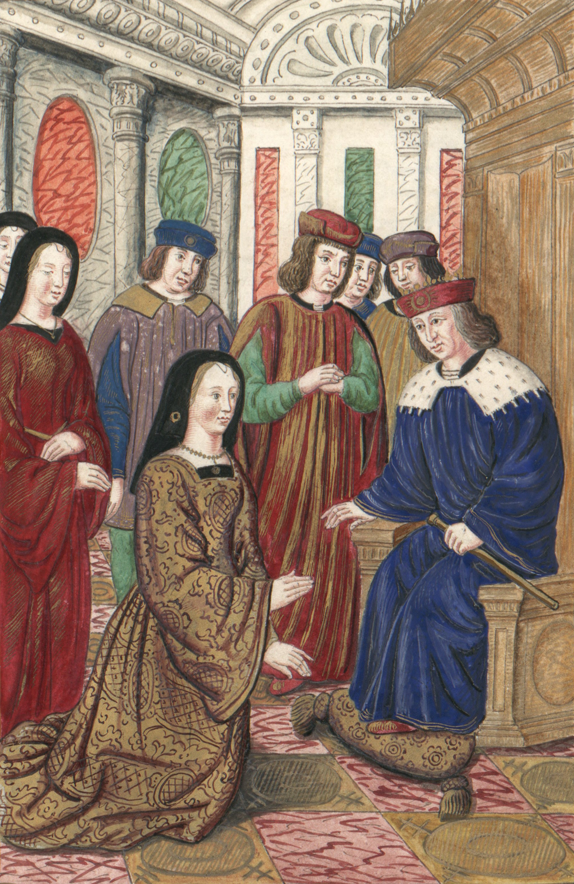 Isabella of Portugal (1397–1471) & Charles VII of France, French miniature